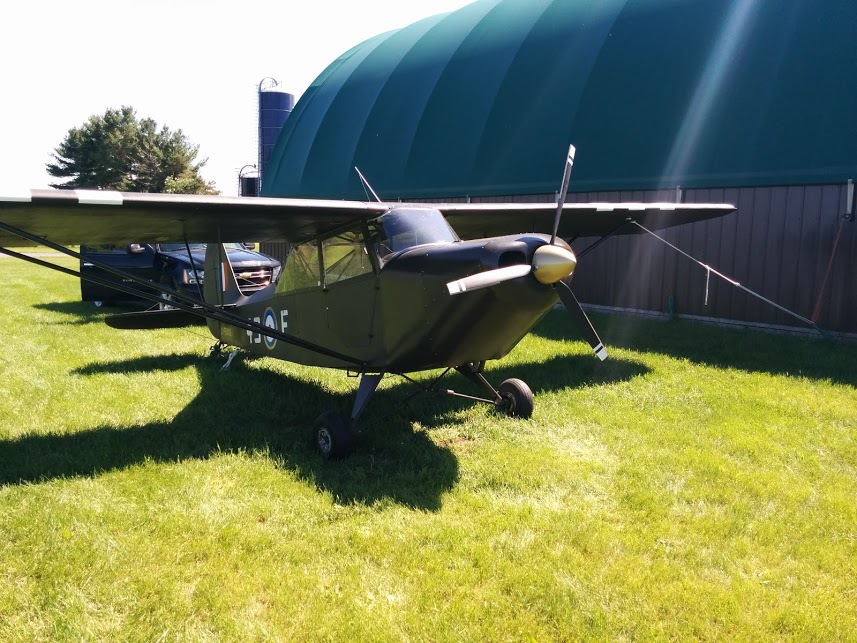 Christavia MK I - Registered as L-16 Replica